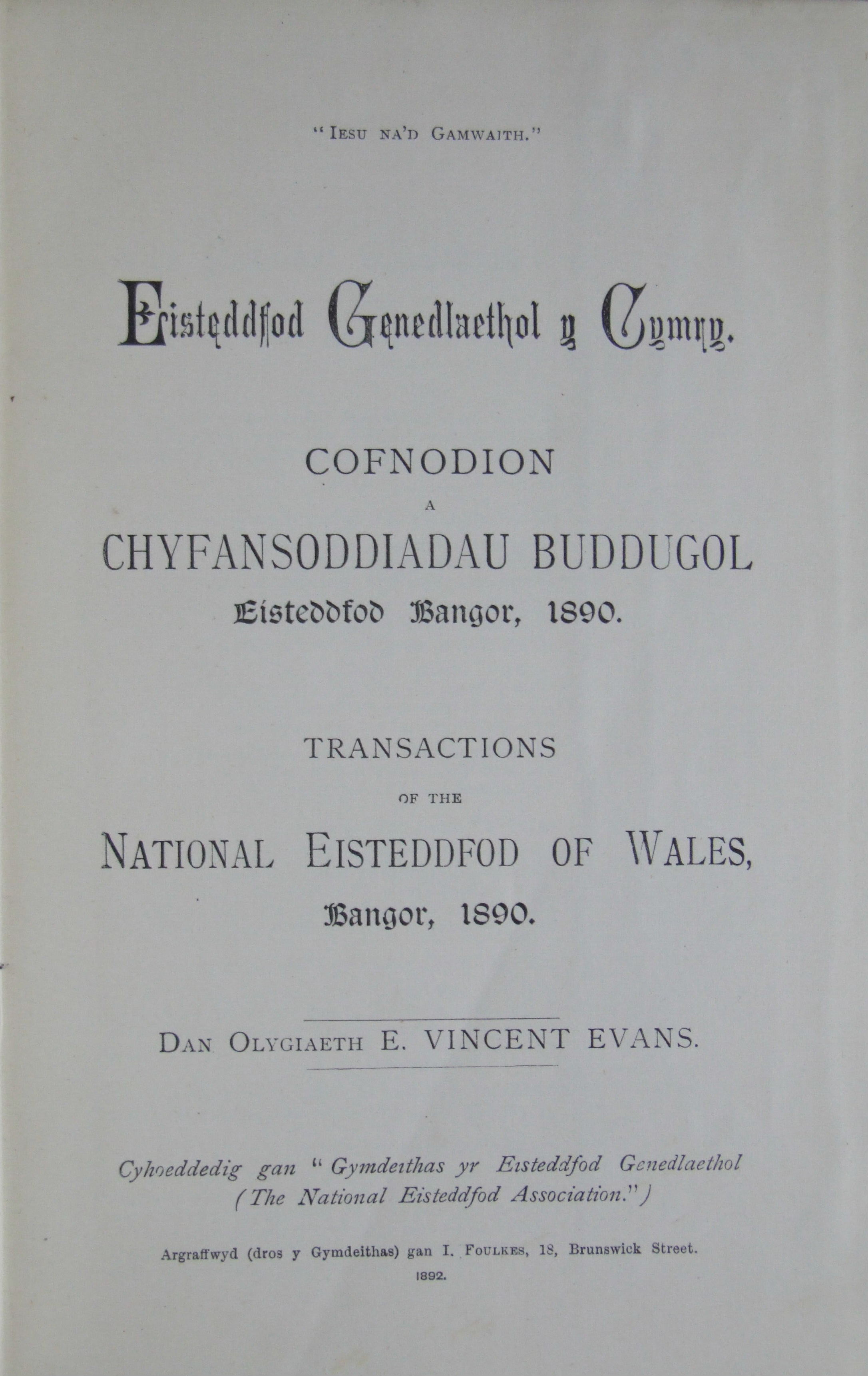 Title page of the volume of Transactions of the National Eisteddfod of Wales for the 1890 National Eisteddfod held at Bangor, Gwynedd. Published by Isaac Foulkes on behalf of the National Eisteddfod Association in 1892.